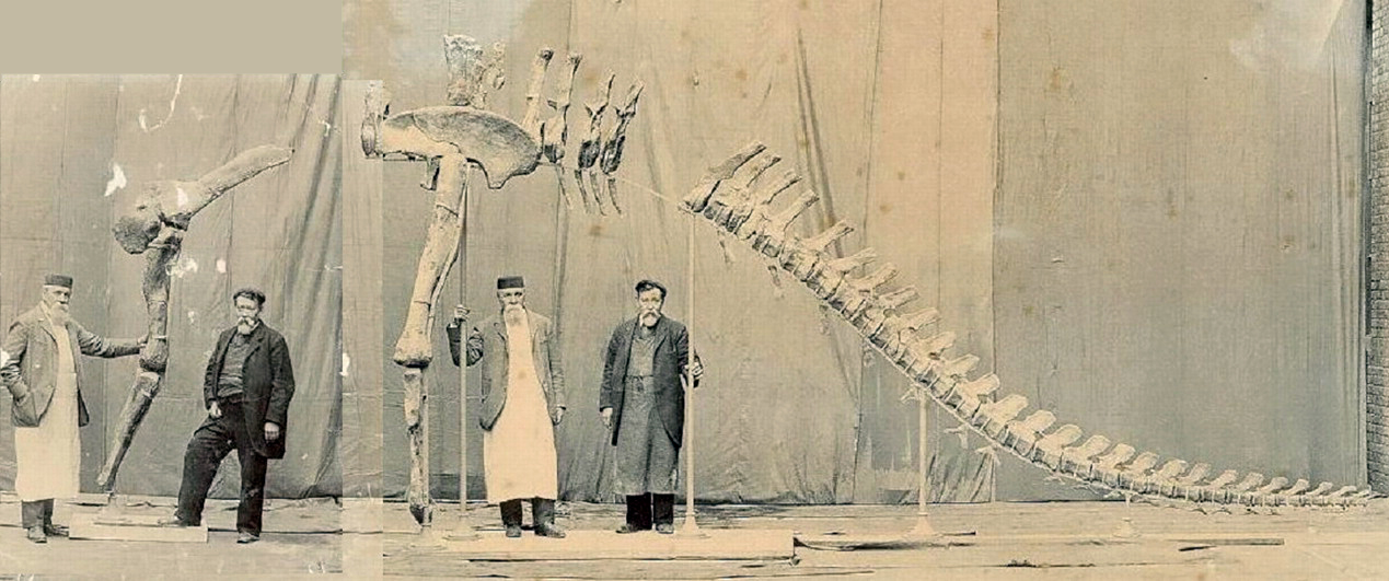 The incomplete skeleton of Cetiosauriscus stewarti (BMNH R3078) mounted prior to display in around 1903. Photographed in the BMNH, and reproduced courtesy of the Leeds family, with layout by J. J. Liston. Note the similarity of this photograph to the drawing of the skeleton in Woodward (1905); previously figured in Anon. (1924) and Naish & Martill (2008).[1][2] ↑ Noè, L.F. (2010) "‘Old bones, dry subject’: the dinosaurs and pterosaur collected by Alfred Nicholson Leeds of Peterborough, England" in Moody, R.T.J. , ed. Dinosaurs and Other Extinct Saurians: A Historical Perspective, 343, Geological Society, London, Special Publications, p. 70 ↑ Naish, D. (2007). "Dinosaurs of Great Britain and the role of the Geological Society of London in their discovery: basal Dinosauria and Saurischia". Journal of the Geological Society 164 (3): 493–510.